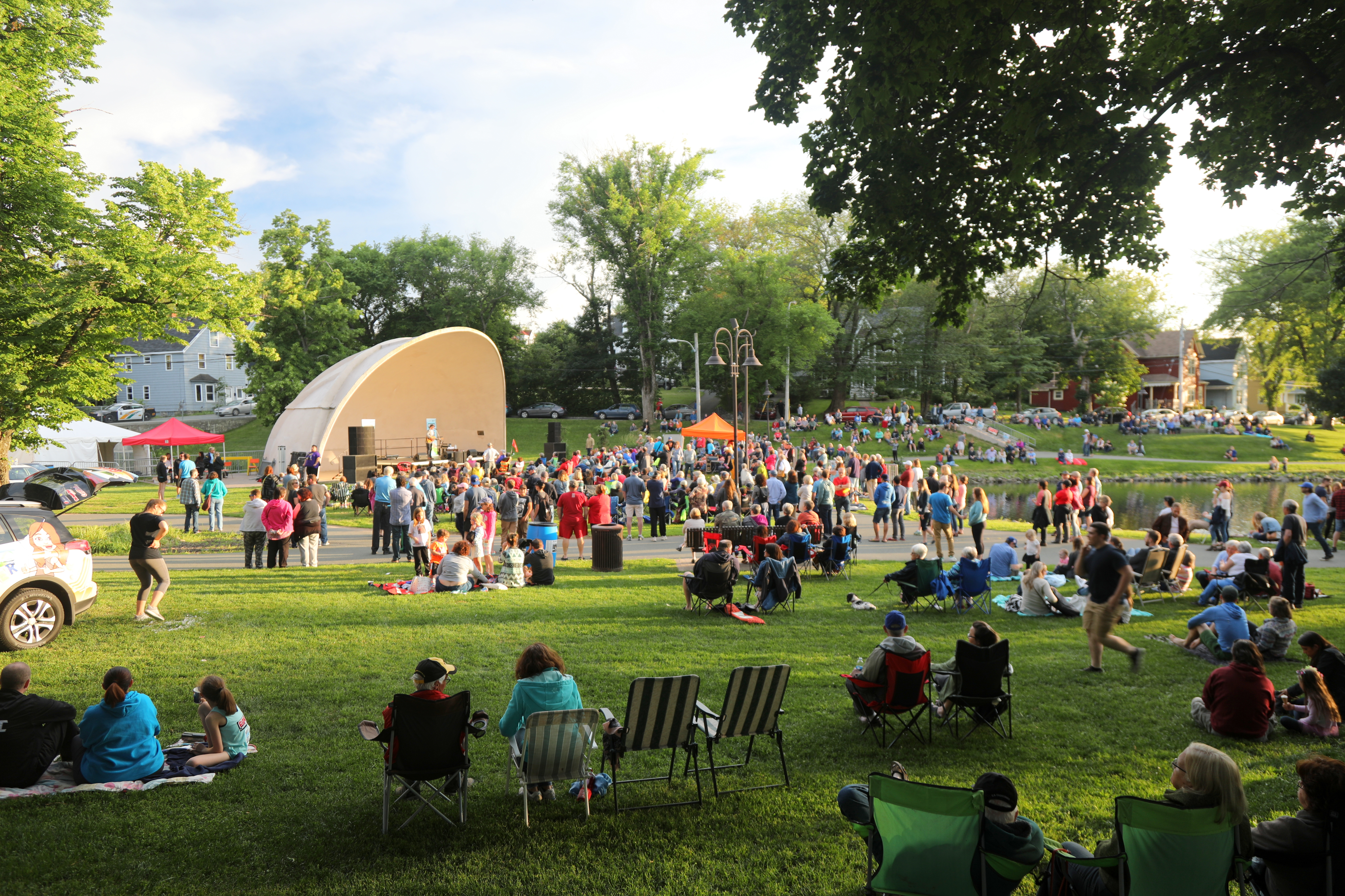 Wentworth Park is a Canadian urban park located in Sydney, part of Nova Scotia's Cape Breton Regional Municipality. The park incorporates the the Kiwanis Banshell, a small network of paved paths, as well as a Playground. The park centres around Wentworth Creek, which form a series of interconnected ponds running through the park. Much of the park is lawn, suitable for informal recreation, with many towering trees for shade. The park encompass 12 acres (4.9 ha) within the former city's boundaries.